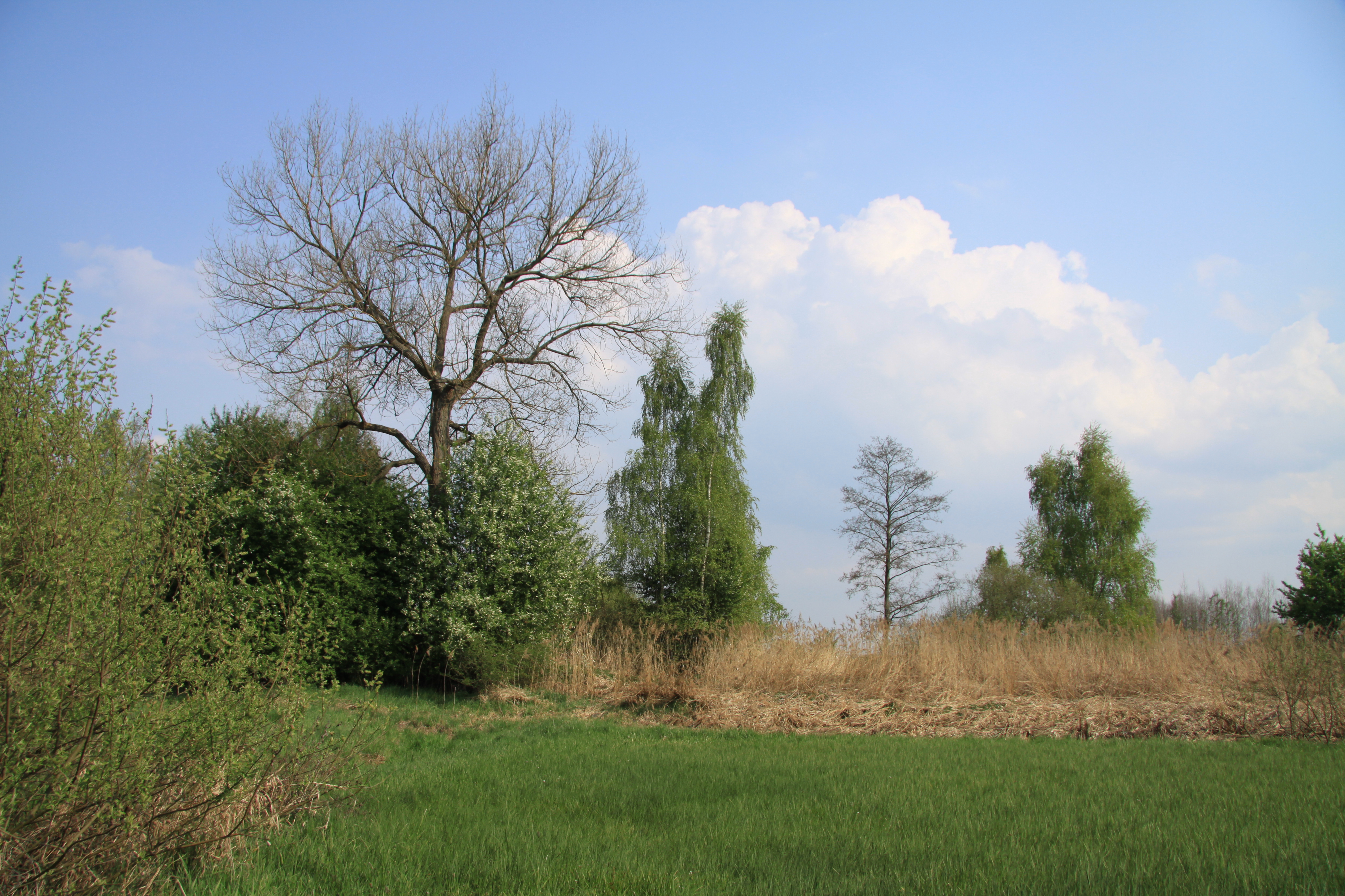 Natural reserve Mokřiny u Vomáčků near Zliv, České Budějovice District, Czech Republic - Google Maps - Google Earth